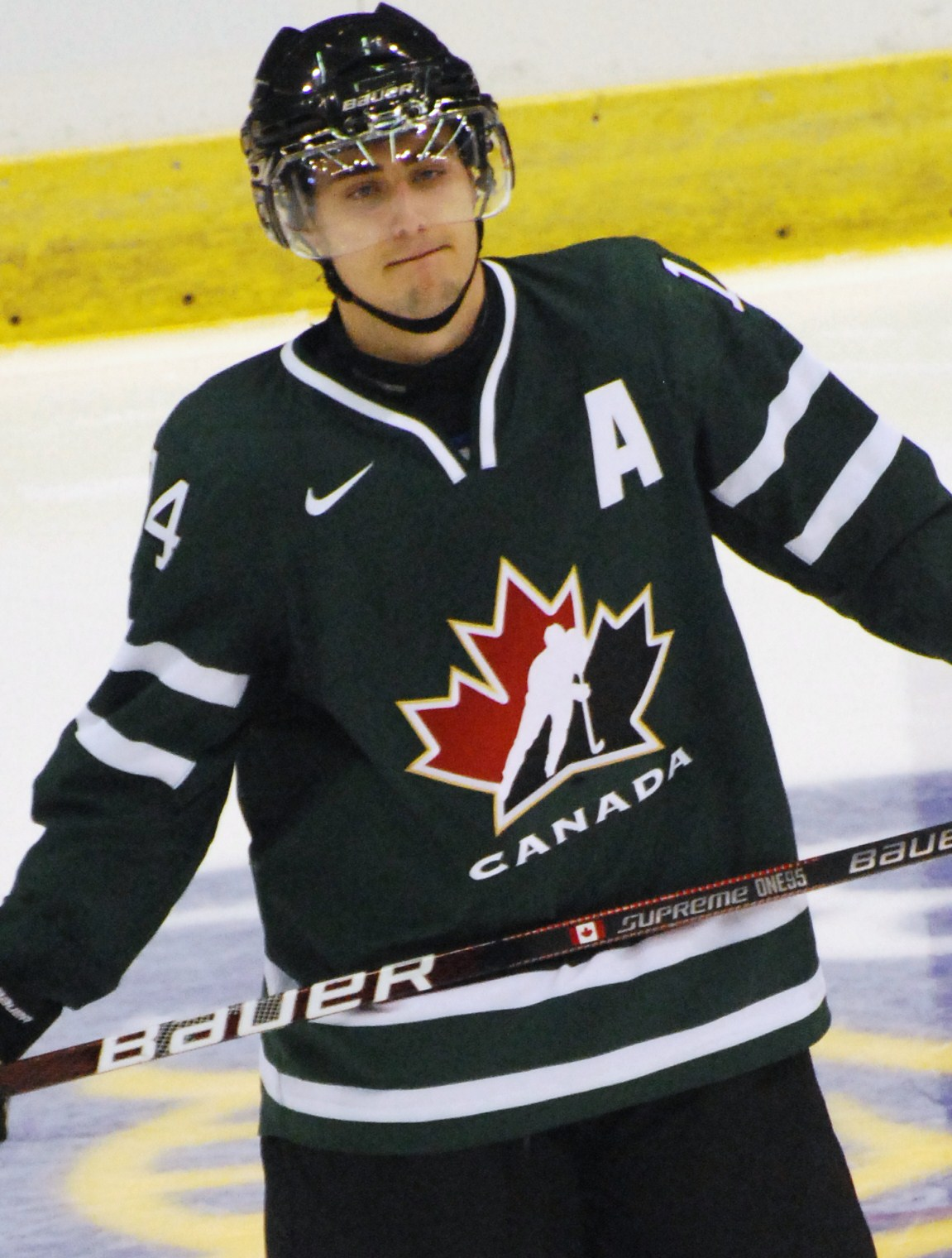 Jordan Eberle in a pre-tournament game for Team Canada at the Brandt Center in Regina, Saskatchewan.